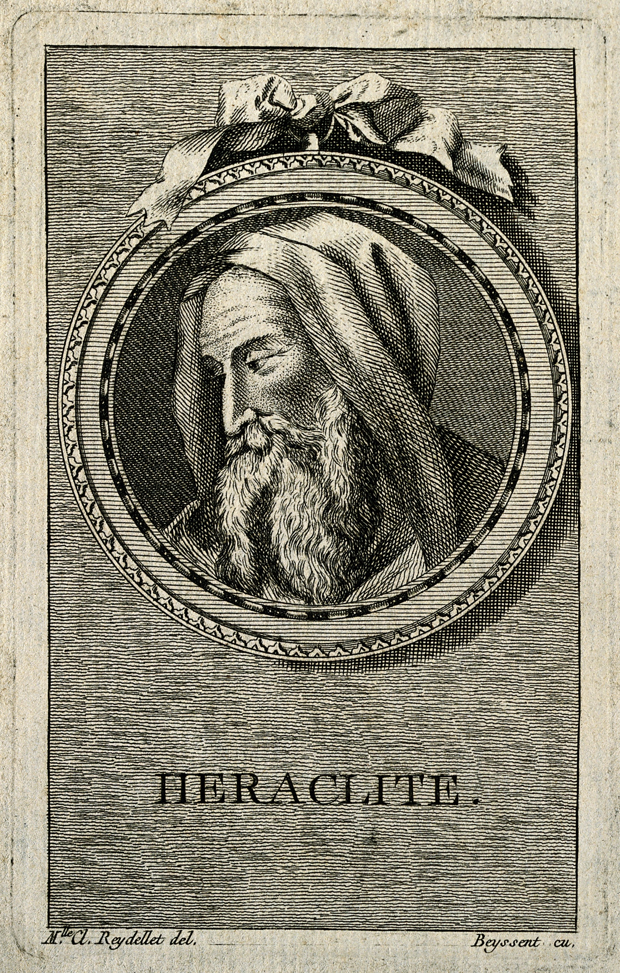 Heraclitus. Line engraving by S. Beyssent after Mlle. C. Reydellet. Iconographic Collections Keywords: portrait prints; engravings; Heraclitus